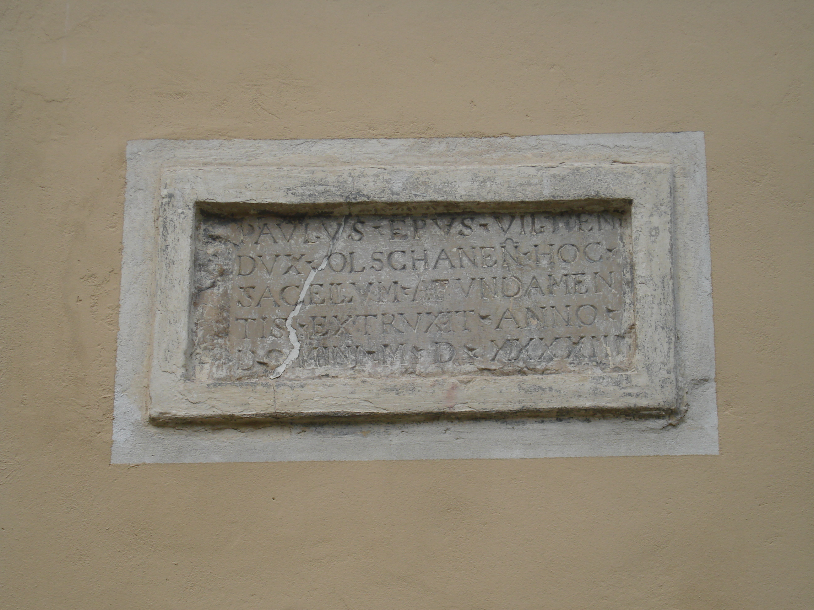 Table on the wall of the Monastery of Bonifratri in Vilnius claims about erection of church by Pawel Olshanski